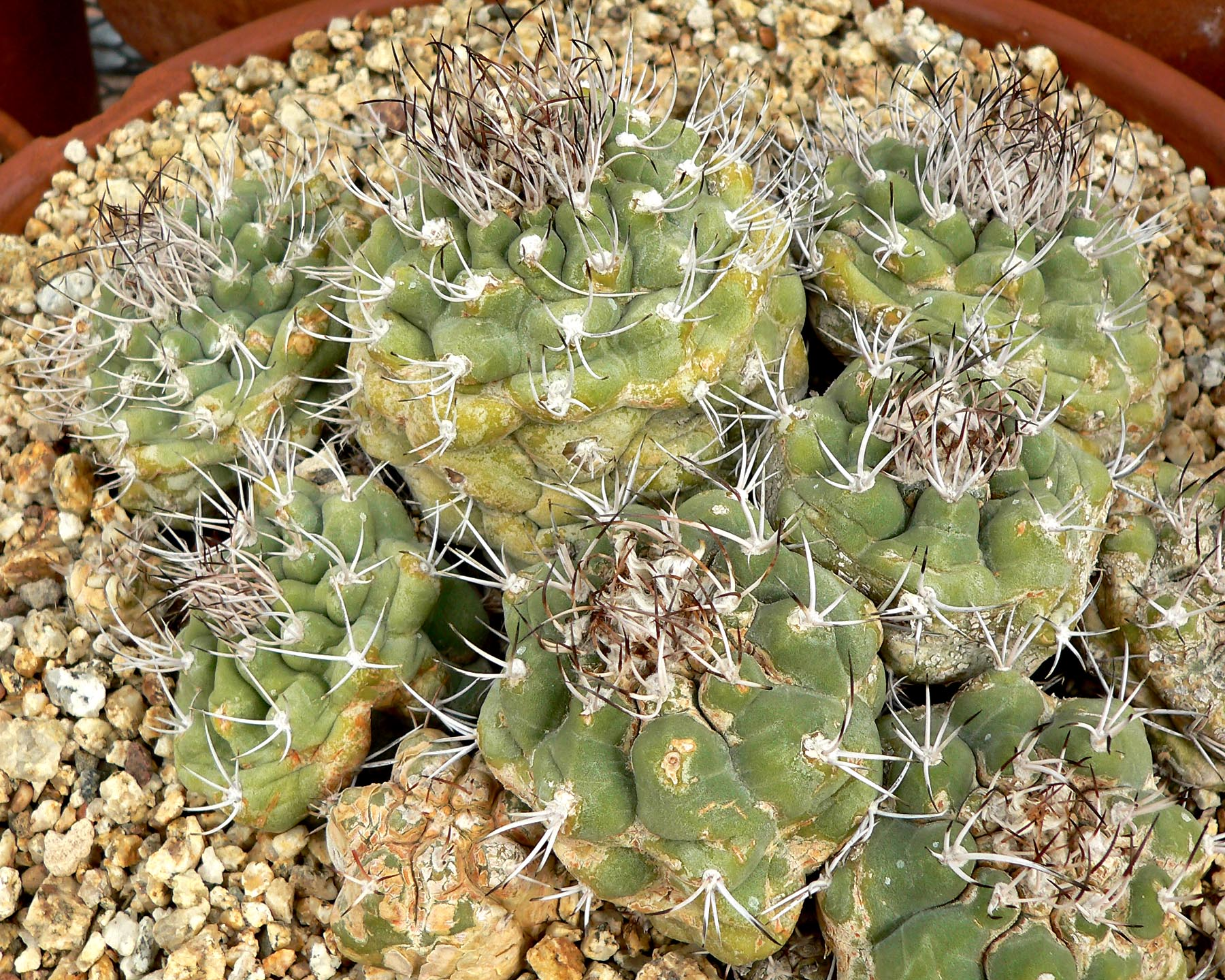 Photo of Matucana pujupatii at the University of California Botanical Garden